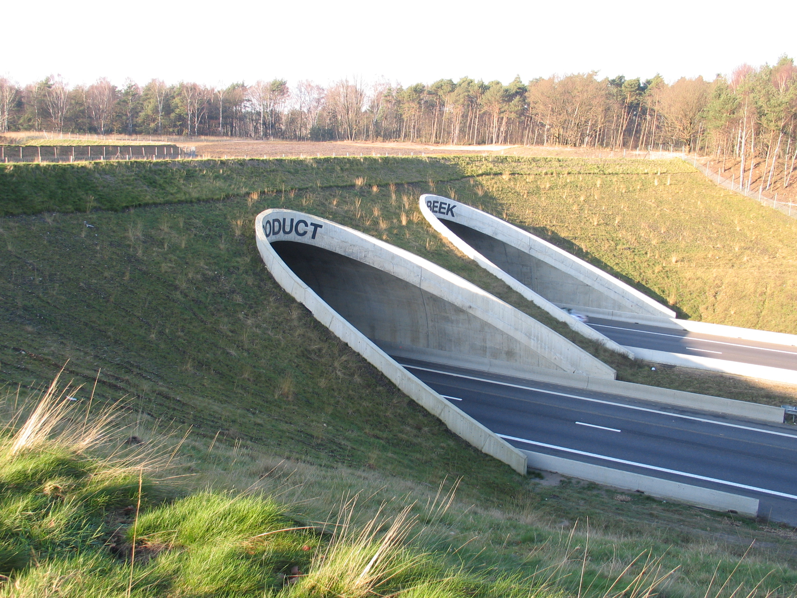 Ecoduct Nationaal Park Hoge Kempen Belgium my own work Paul Hermans